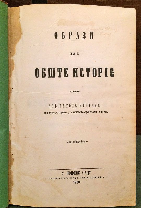 Naslovna strana dela Nikole Krstića pod nazivom Obrazi iz opšte istorije iz 1860. godine.